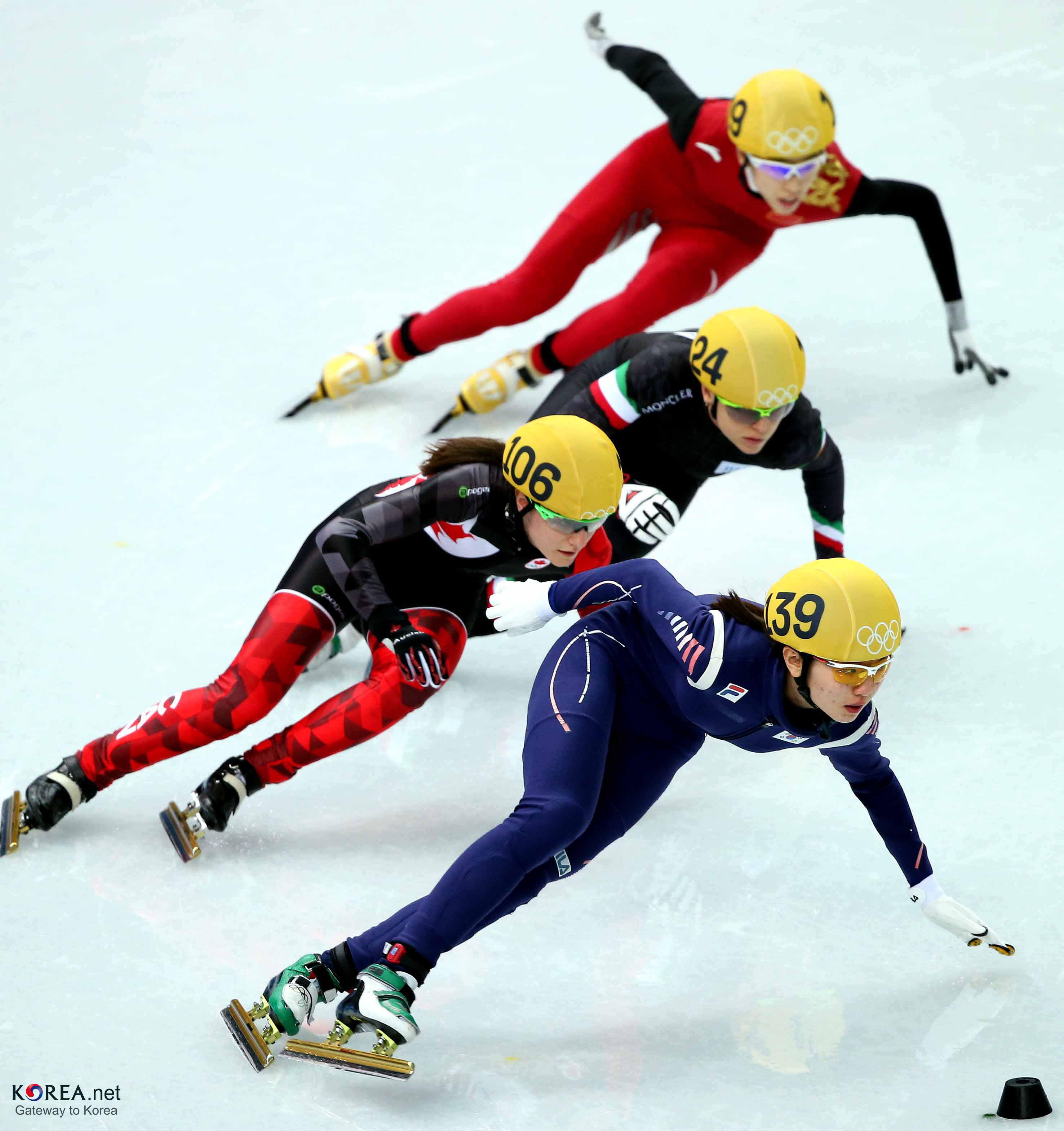 Team Korea won the gold medal in the ladies' 3,000-meter short track relay at the Sochi 2014 Olympic Games in Sochi, Russia. February 18, 2014 Iceberg Skating Palace, Sochi, Russia Photo: The Korean Olympic Committee Related Articles -English- 'Olympic Silver Medal is Invaluable': Shim Suk-hee -Russian- «Серебряная олимпийская медаль бесценна», - Шим Сук Хи -Deutsch- ,Olympische Silbermedaille ist von unschätzbarem Wert‘: Shim Suk-hee -日本語- シム・ソッキ、「五輪銀メダルに満足」 한국 쇼트트랙 여자 대표팀 ‘2014 소치 동계올림픽’ 쇼트트랙 여자 3000m 계주 금메달 획득 2014-02-18 러시아, 소치. 아이스버그 스케이팅 팰리스 사진: 대한체육회